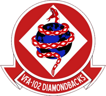 Insignia of the U.S. Navy Strike Fighter Squadron 102 (VFA-102) "Diamondbacks".